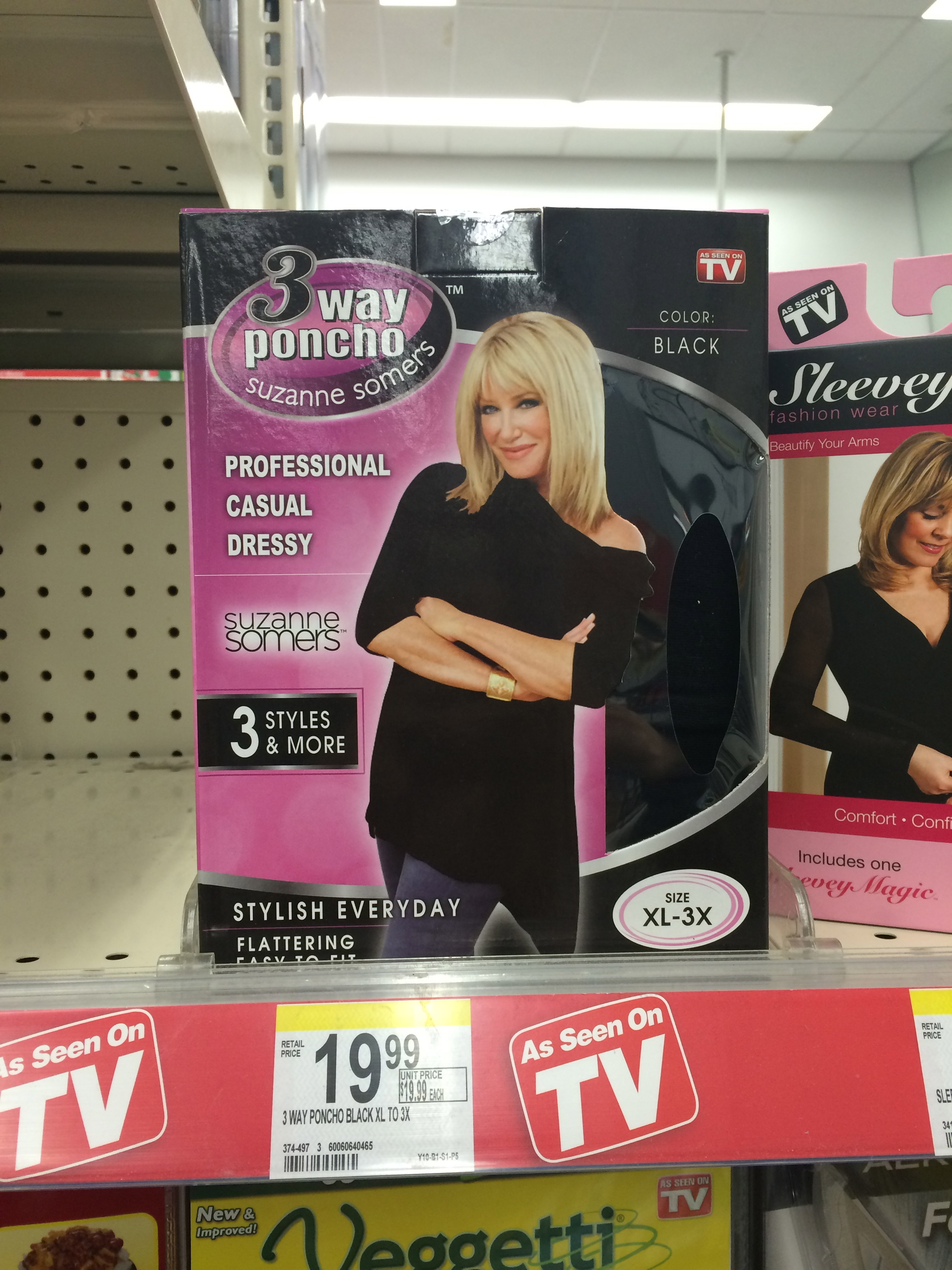 Suzanne Somers 3 way poncho at Walgreens in downtown Palo Alto, CA. As seen on TV. Photo by Emily Allstot.